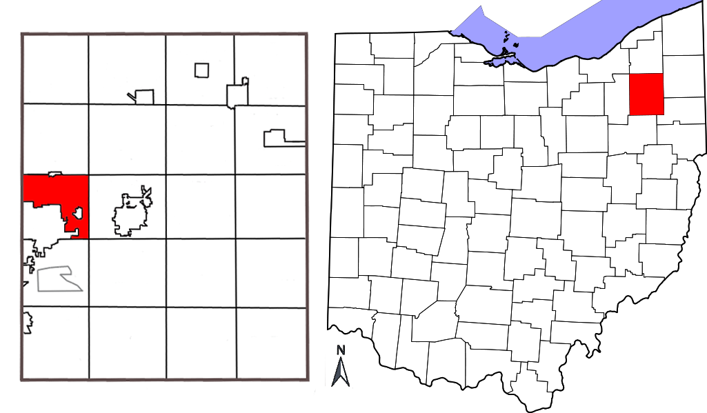 Combination map showing location of Franklin Township within Portage County and Portage County's location within the state of Ohio. Original map of Ohio made by David Benbennick and original map of Portage County made by Jon Ridinger.